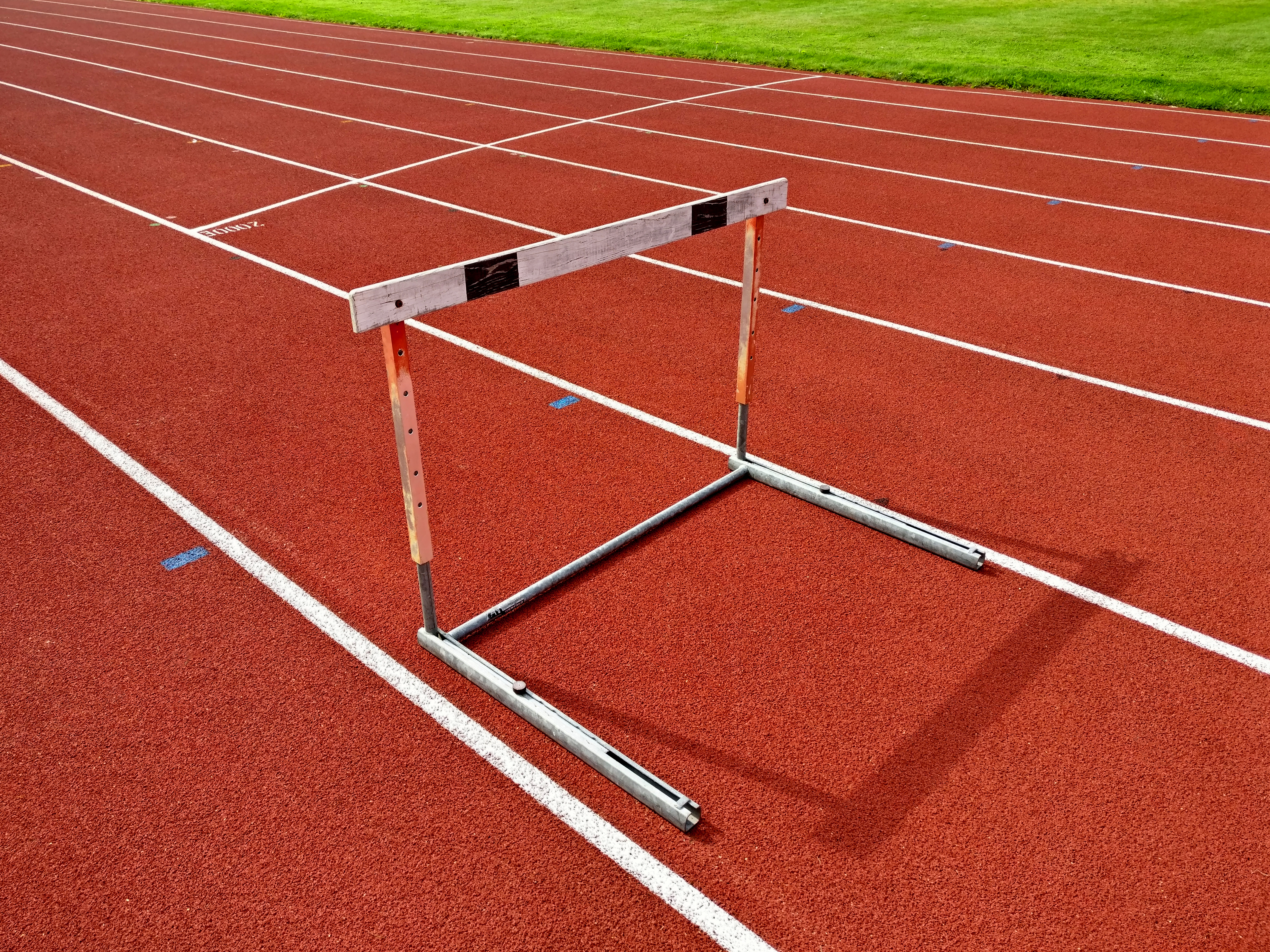 Hurdle on athletic track